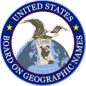 United States Board on Geographic Names seal